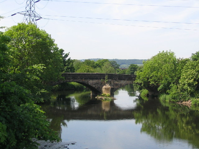 Apperley Bridge. The old stone built bridge which carried the old road from Bradford to Harrogate over the River Aire, before it was replaced with a concrete bridge.